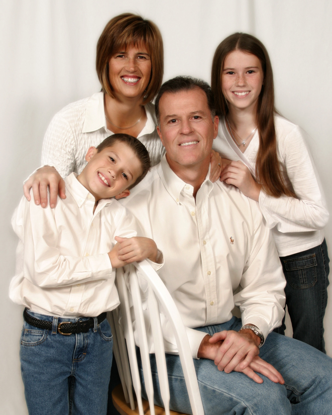 Sample family portrait photo.